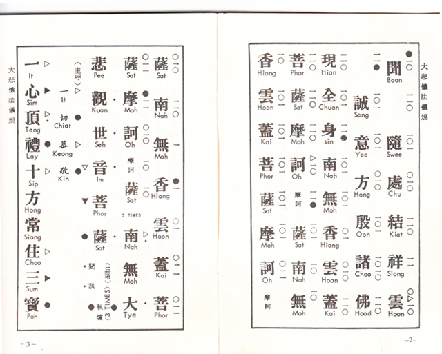 Scanned image of page 2 of Repentence Rule 《大悲懺法儀規》 ) - Hokkien version